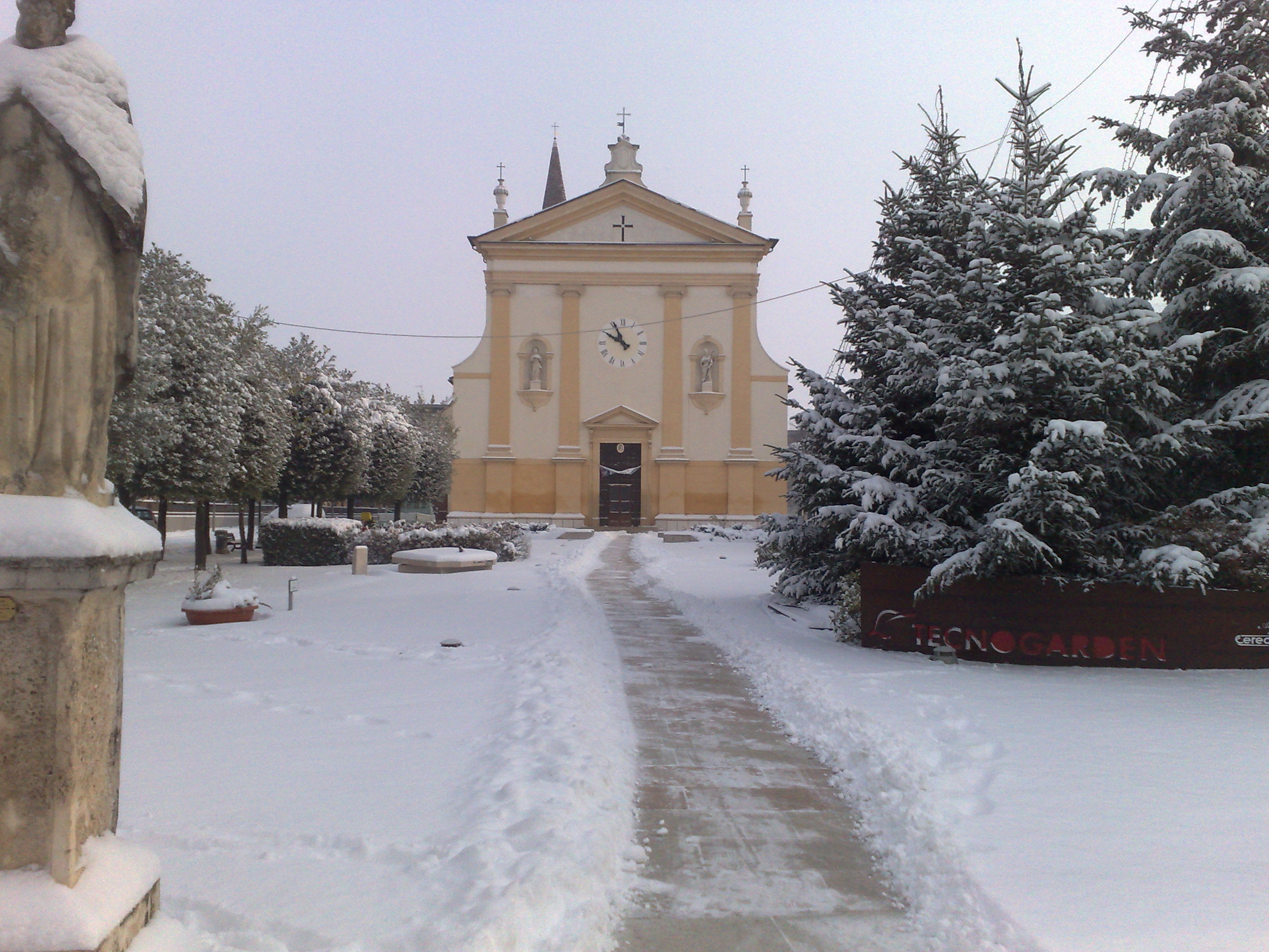 San Zeno in Santa Maria Assunta's Church in Cerea (Vr)